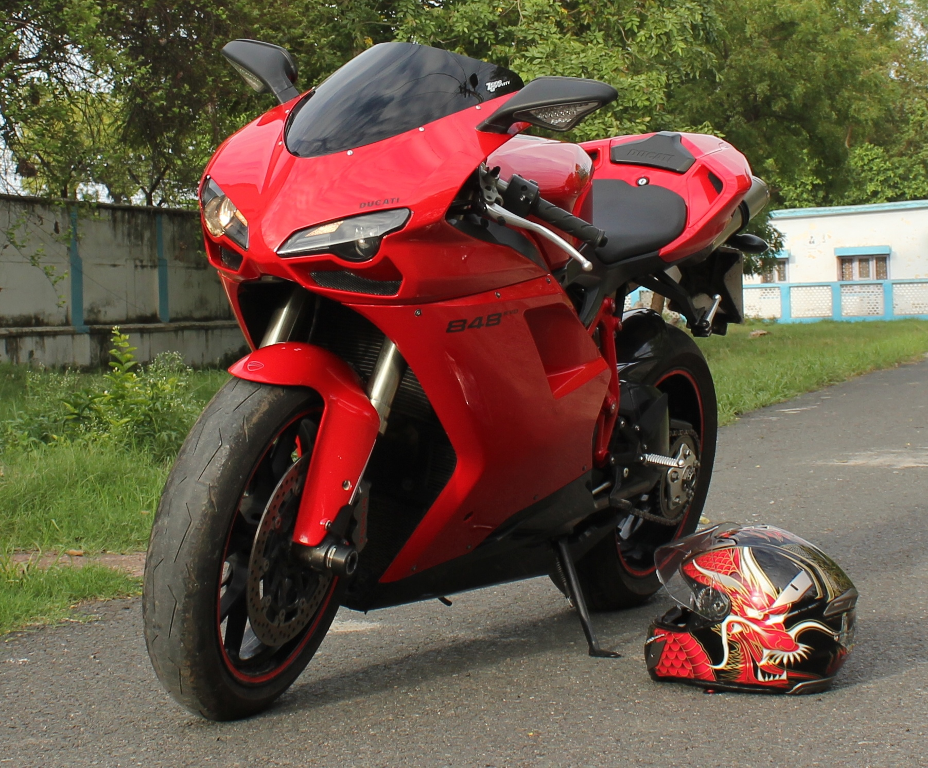 I clicked this picture during a photo shoot of Ducati 848 EVO.